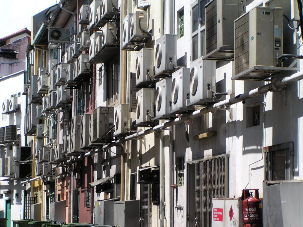 Wärmetauscher von Klimaanlagen in Singapur. Heat exchangers of air conditions in Singapore